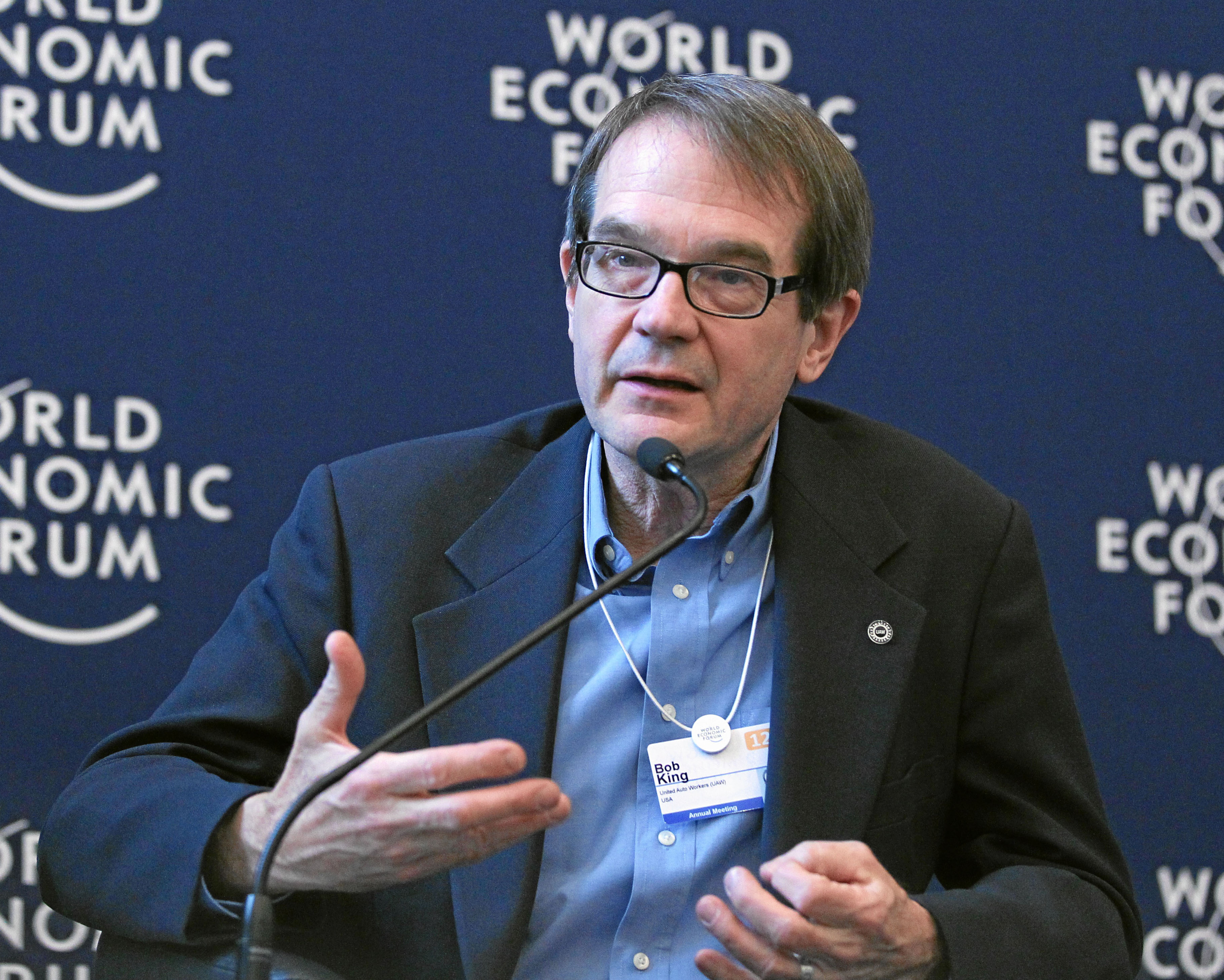 DAVOS/SWITZERLAND, 28JAN12 - Bob King, President, United Auto Workers (UAW), USA speaks during the session 'People Power' at the Annual Meeting 2012 of the World Economic Forum at the congress center in Davos, Switzerland, January 28, 2012. Copyright by World Economic Forum by Moritz Hager